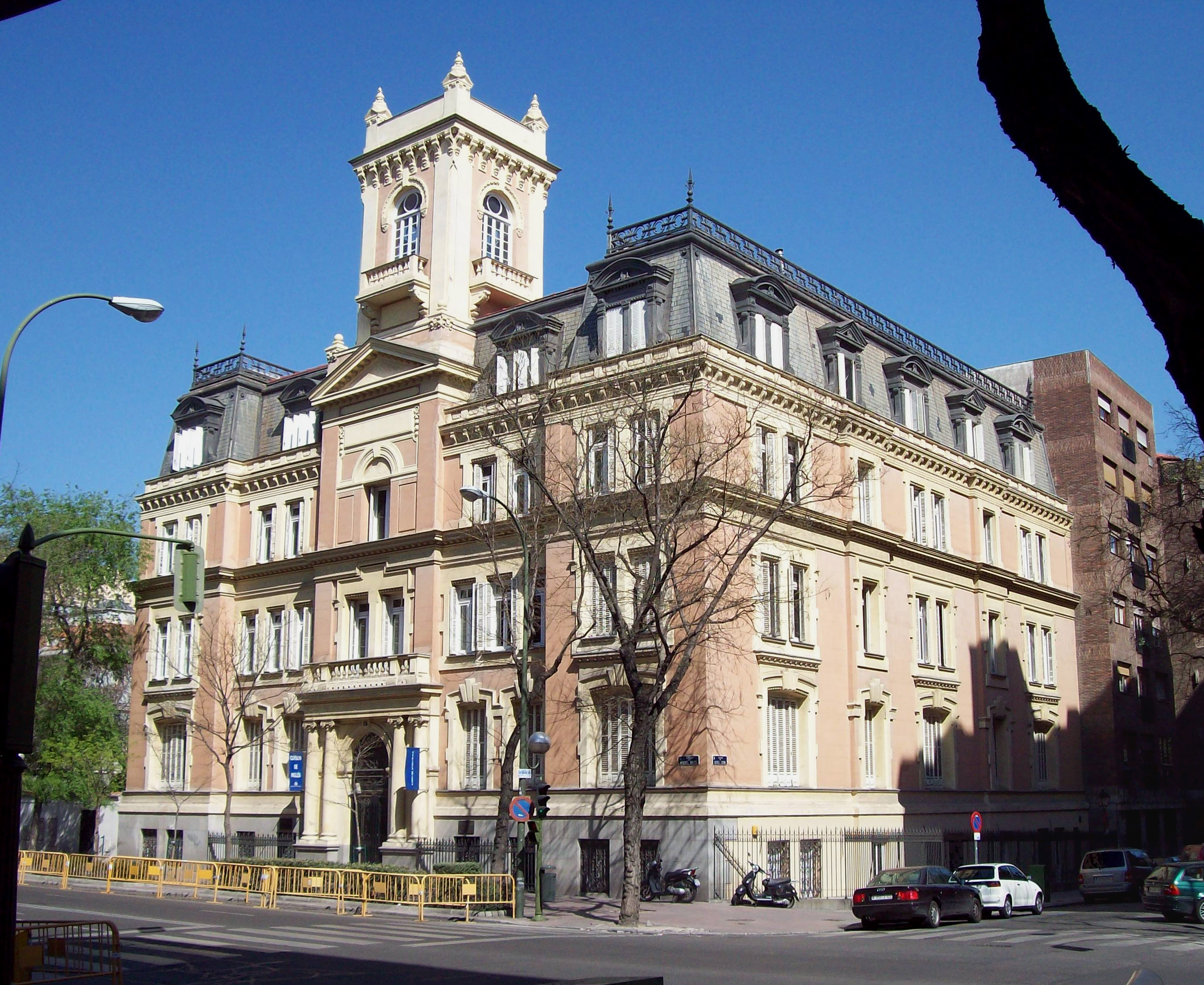 Headquarters of the International Institute in Madrid (Spain), at 8 Calle de Miguel Ángel (street) in Chamberí district. Building was projected in 1906 by Joaquín Saldaña López, and built between 1906 and 1911. Until 2002 it housed the Colegio Estudio (a school).